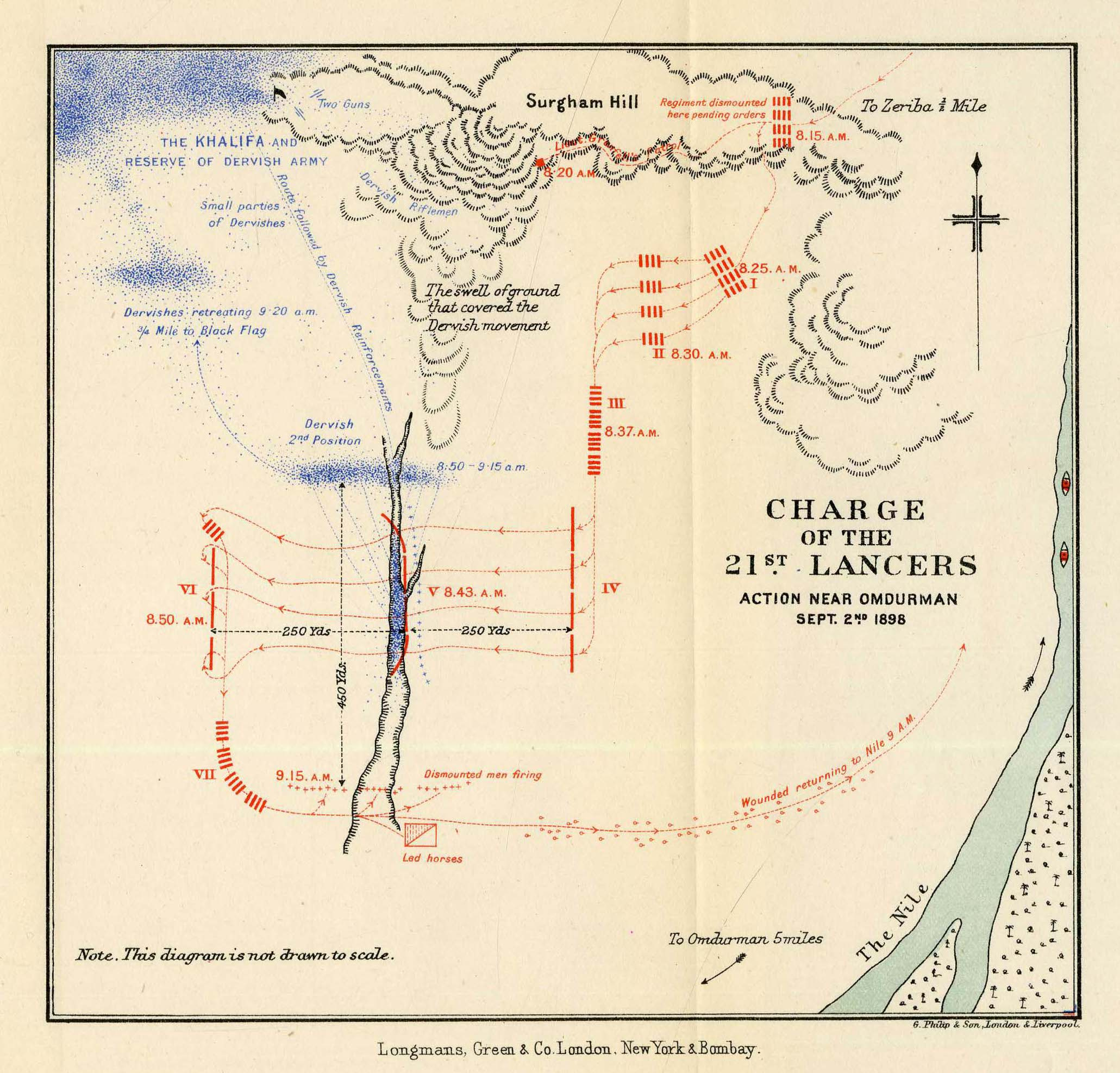 The Battle of Omdurman Charge of the 21st Lancers 2nd September